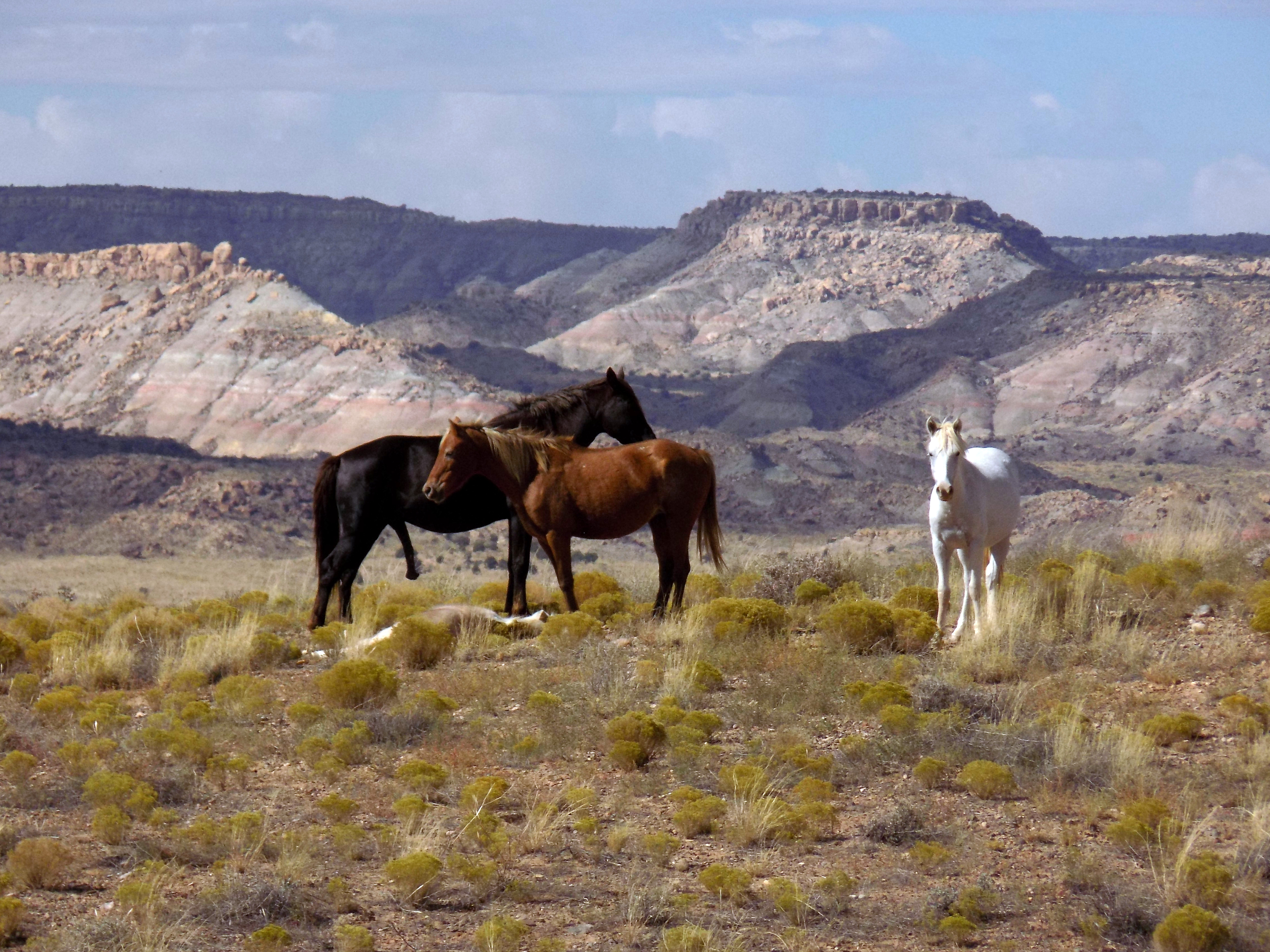 Mustangs in New Mexico, close to Four Corners